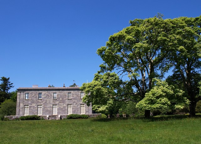 Arlington Court The south front, seen from just above the ha-ha. " Arlington Court was built and owned by the Chichester family until 1949, when it was bequeathed to the National Trust."